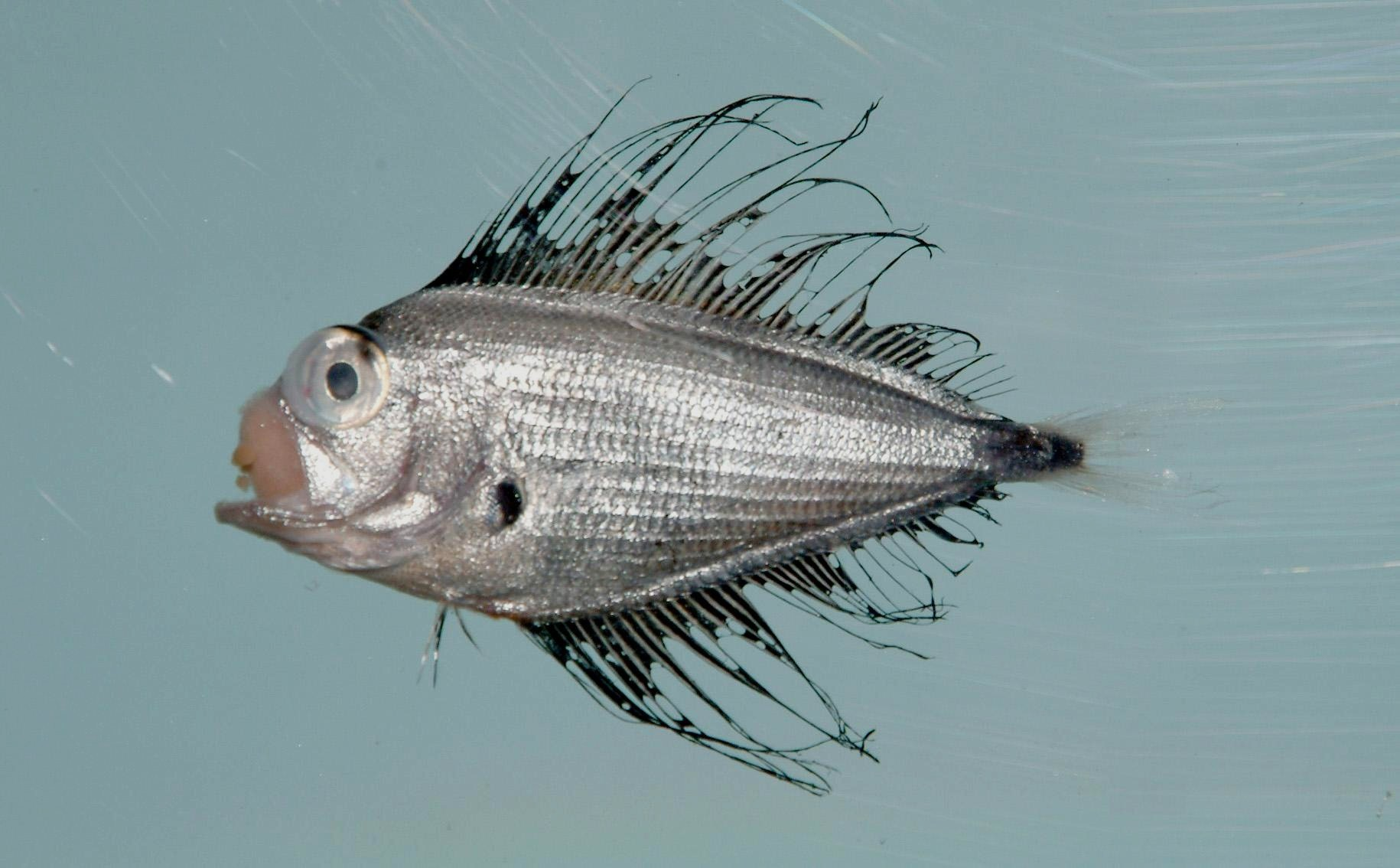 Atlantic fanfish or silver sea bream ( Pterycombus brama ). Gulf of Mexico.